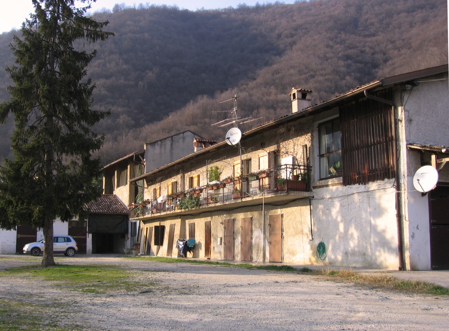 Torre Boldone, Bergamo, Italia